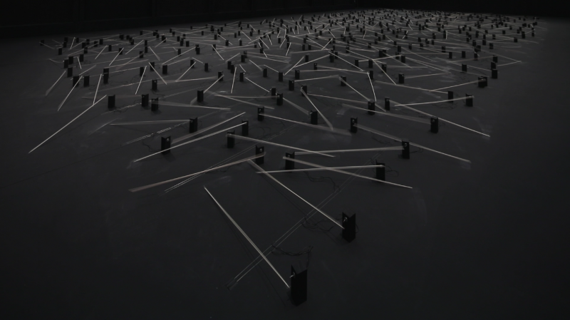 Installation: 600 prepared dc-motors, 58kg wood, Zimoun 2017. Installation view: Le Centquatre Paris, France, 2017.